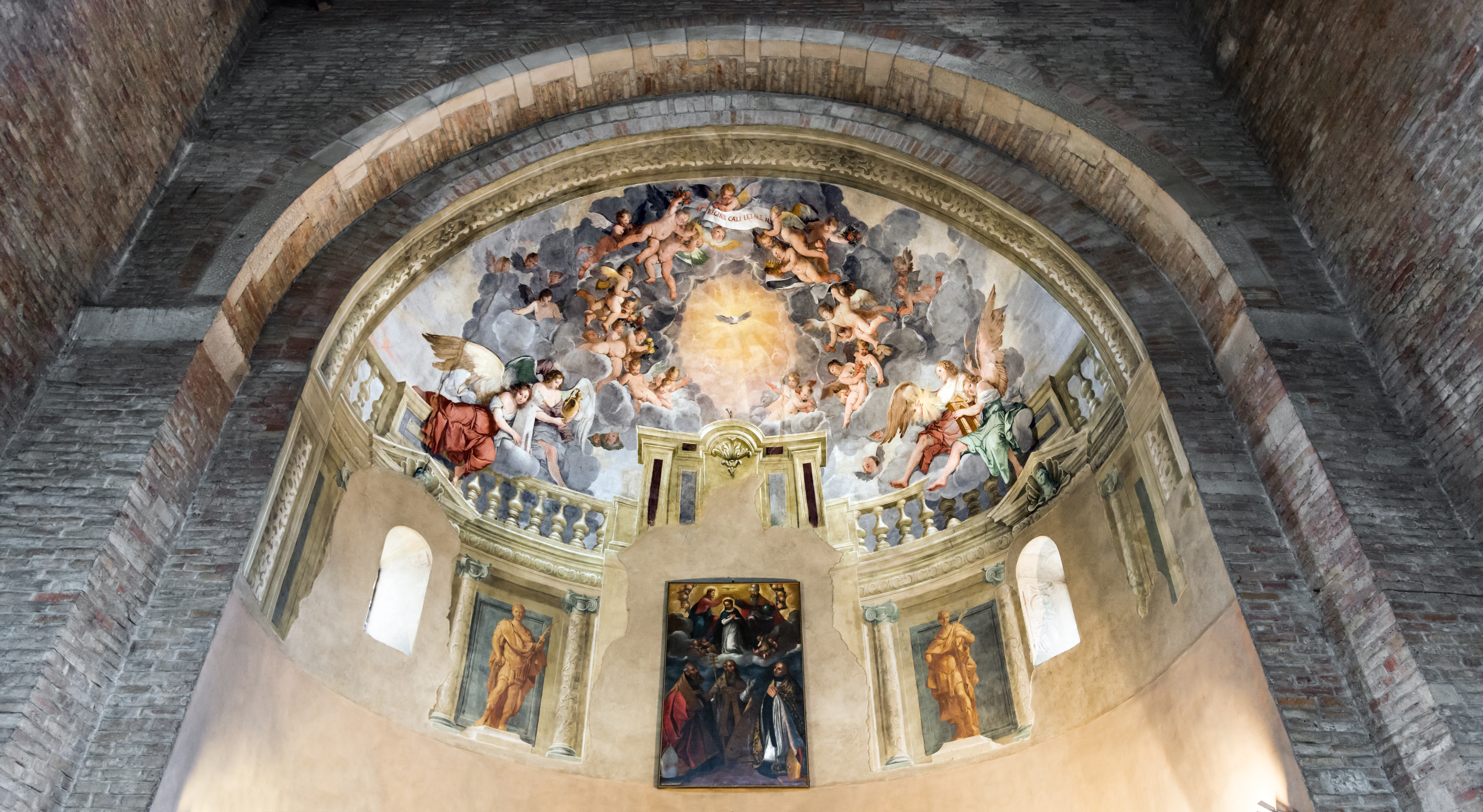 The interior of the Basilica Santi Felice e Fortunato in Vicenza - Fresco of the ceiling of the choir by Giulio Carpioni. In the center is the painting to Pietro Damini da Castelfranco (beginning of XVII century): the Coronation of the Virgin with the saints Benedict, Gregory and Gallo.